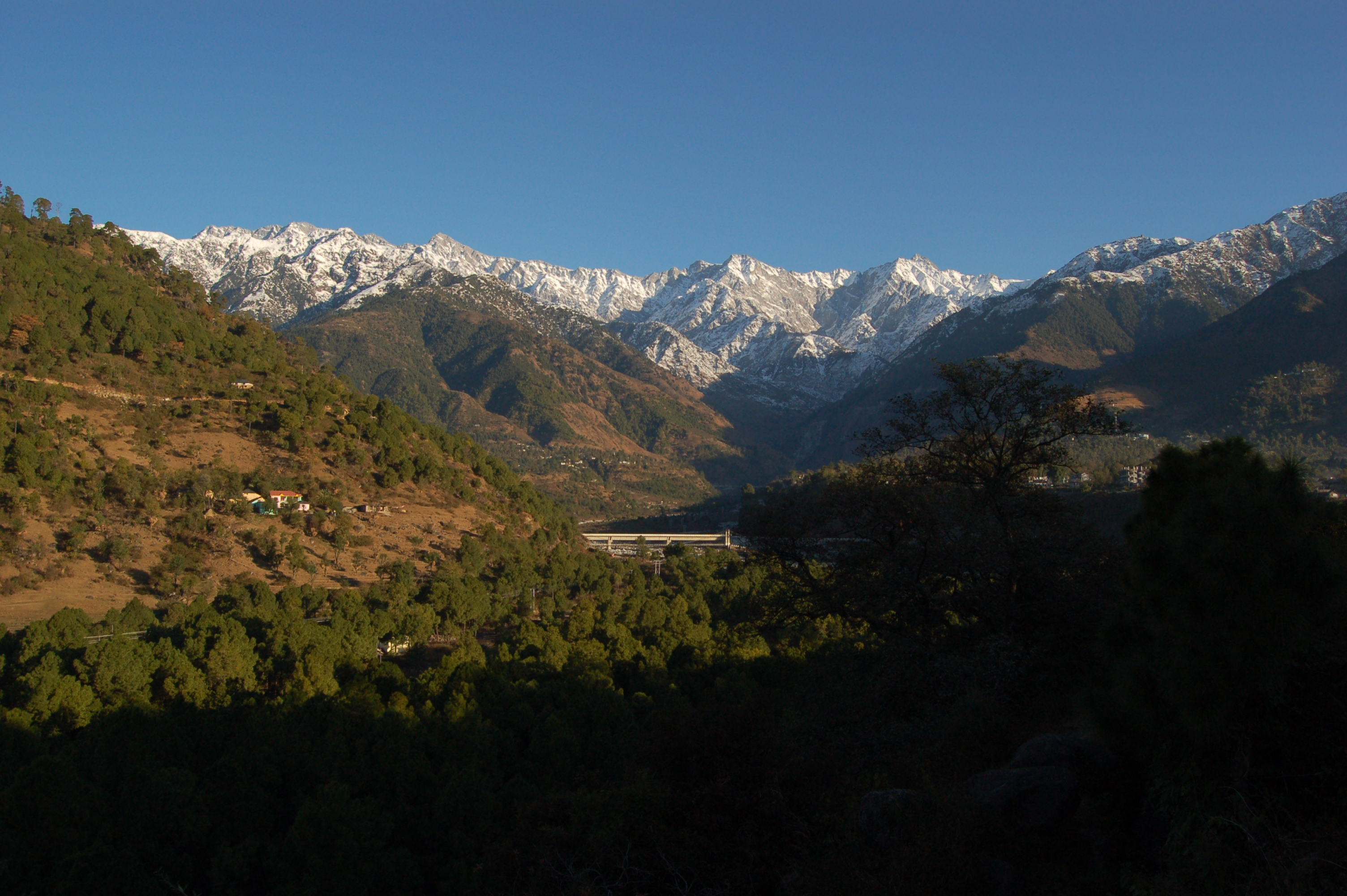 Mountains, trees, land, nature, scenery Himachal Pradesh